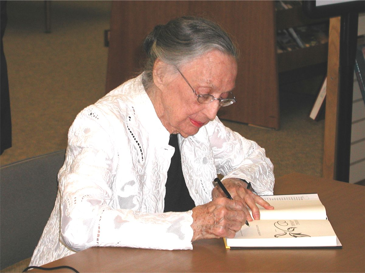 Mary Ward Brown signs copies of her books.